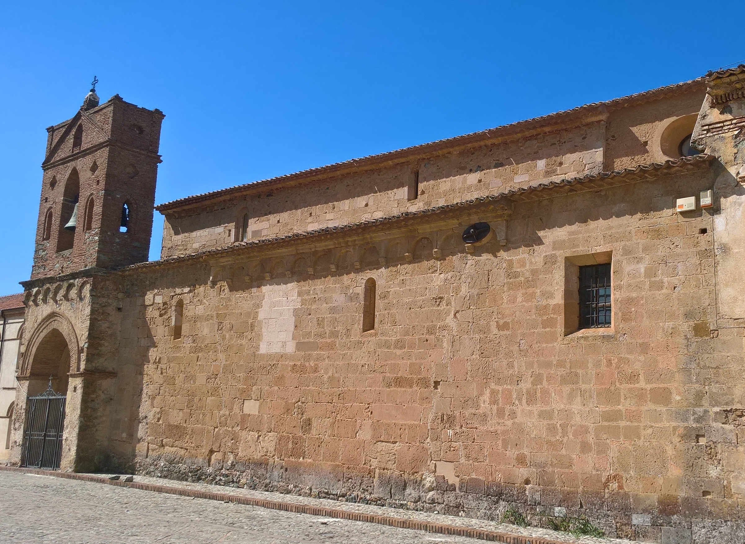 Former monastery Former monastery with monastery church Chiesa di Sant'Adriano e Natalia